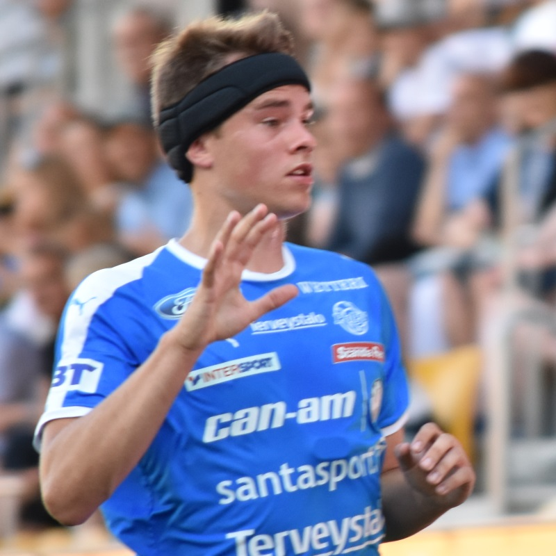 Association football player Leo Väisänen (RoPS)